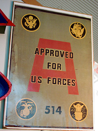 A-Sign